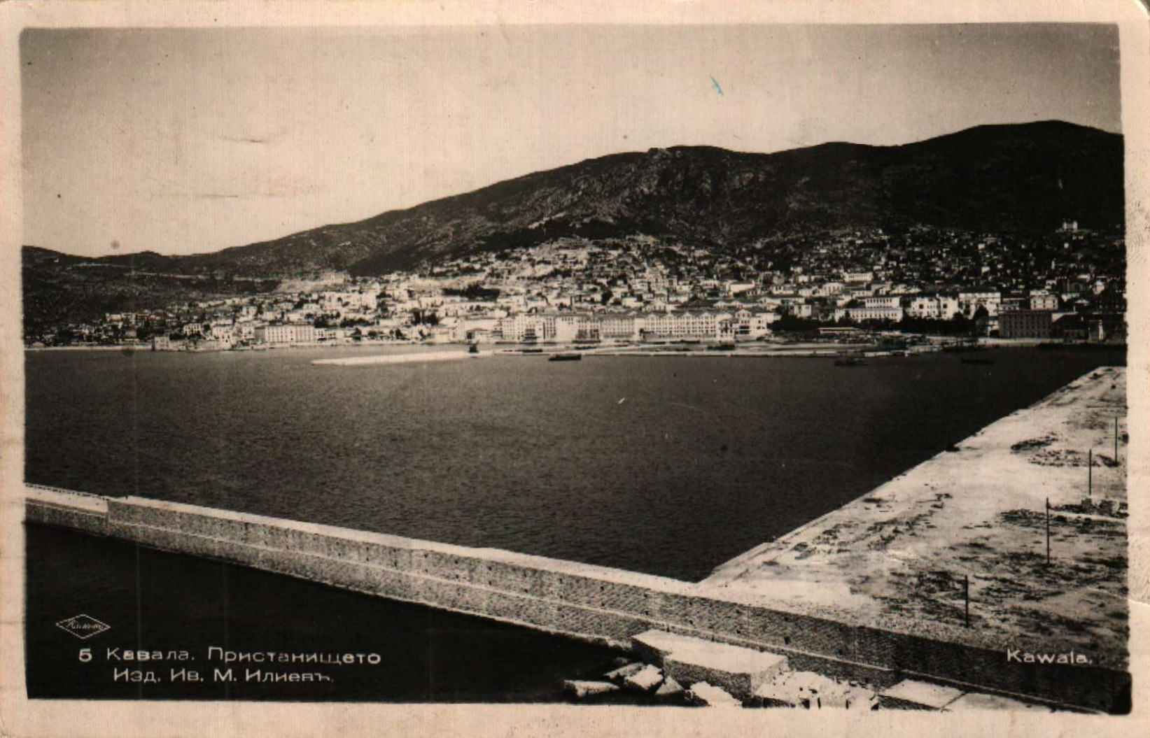 Kavala port